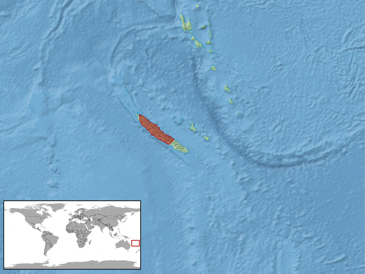 geographic distribution of Tropidoscincus boreus